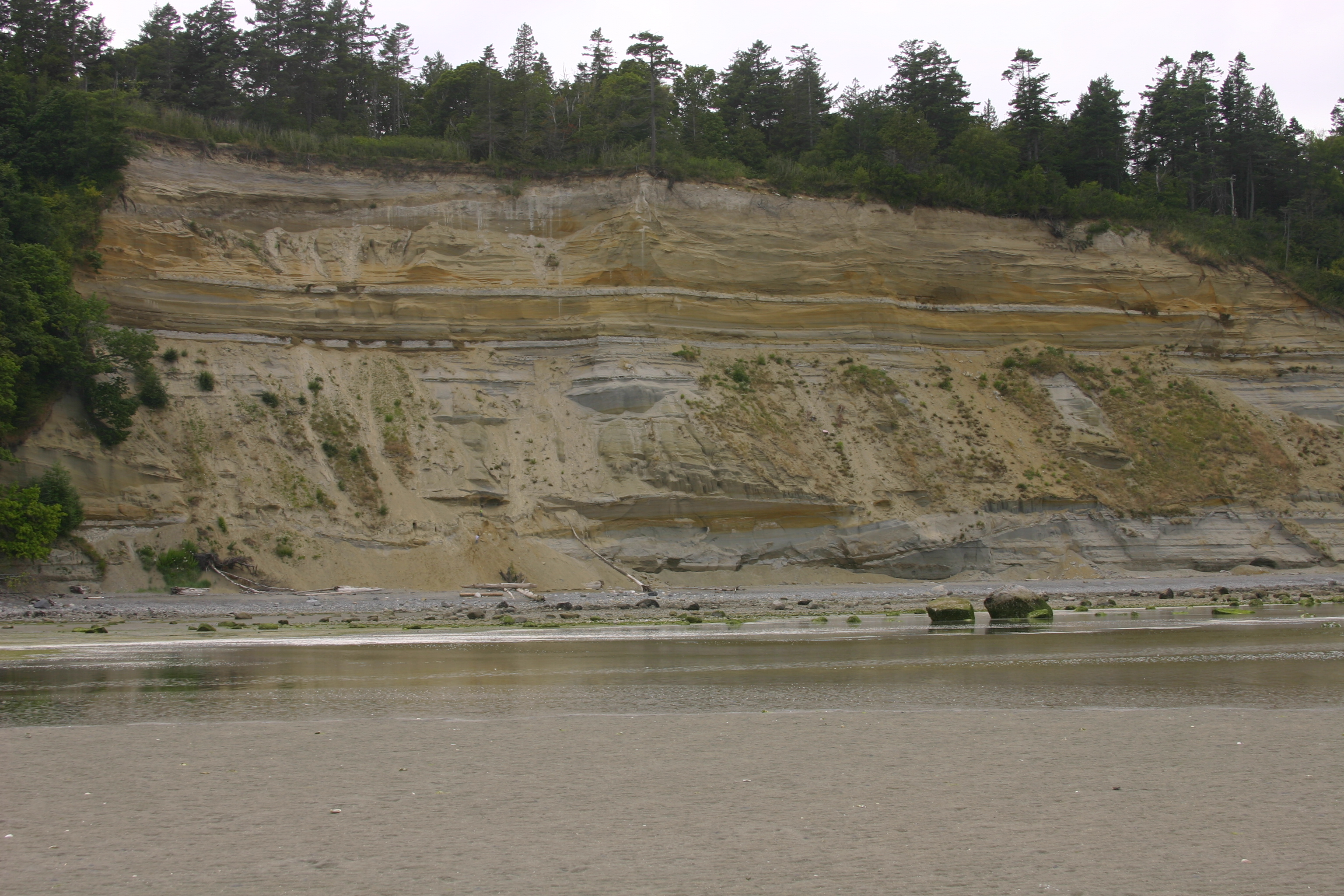 A cliff-face in Point Roberts, Washington, USA